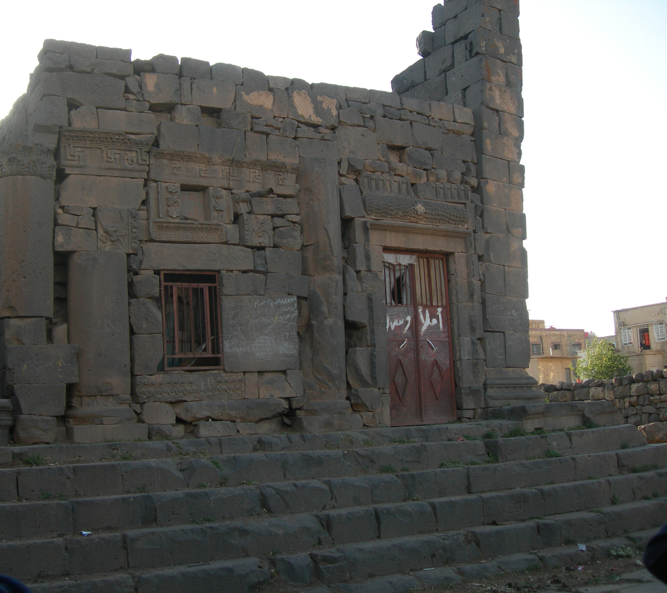 Roman temple Ist century B.C., Al-Mushannaf (ancient Nela or Nelkomia) in 2008